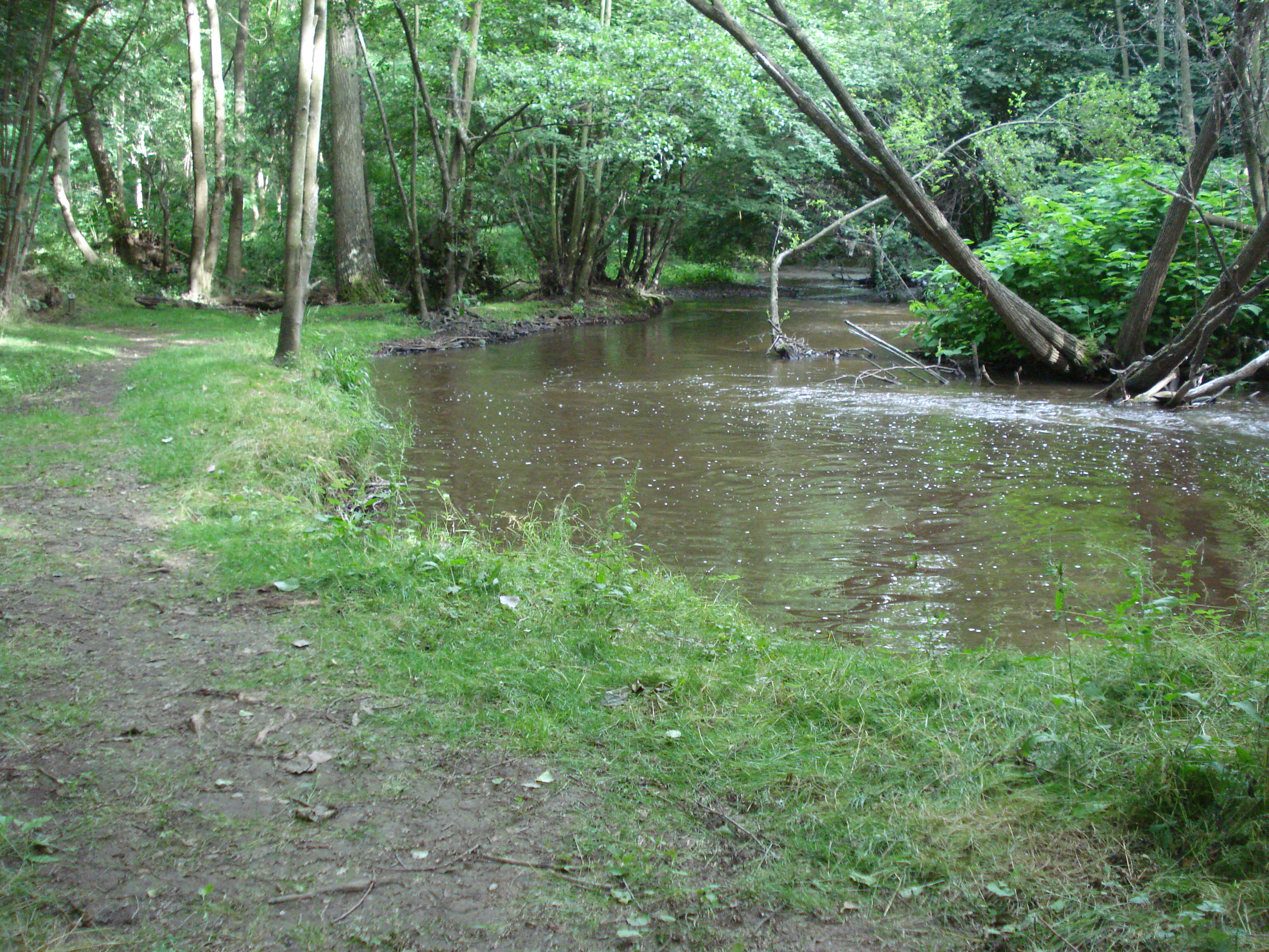 Chemins de l'Astrée, Hameau d'Astrée à coté de La Bâtie d'Urfé (Saint-Étienne-le-Molard, Loire, France) Foothpath along the Lignon du Forez near La Batie d'Urfé, inspired by L'Astrée, roman d'Honoré d'Urfé.